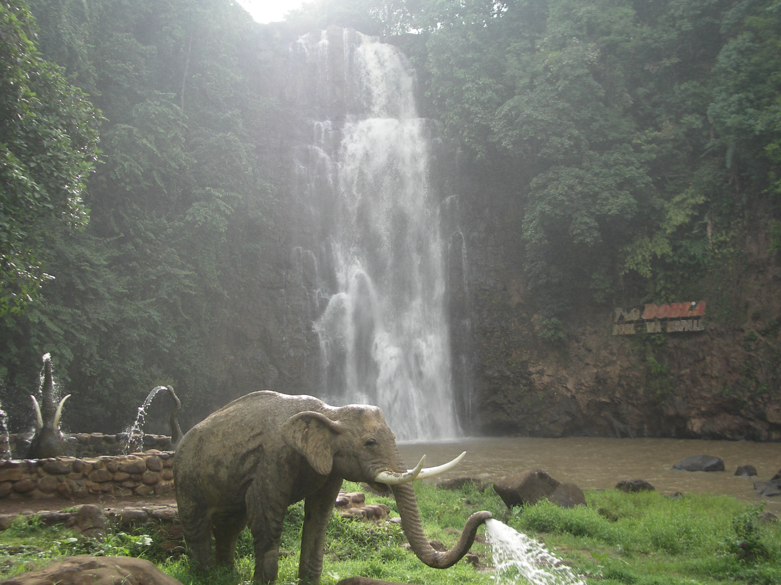 Bobla Waterfall in the central highlands of Viet Name, with super tacky sign and elephants.